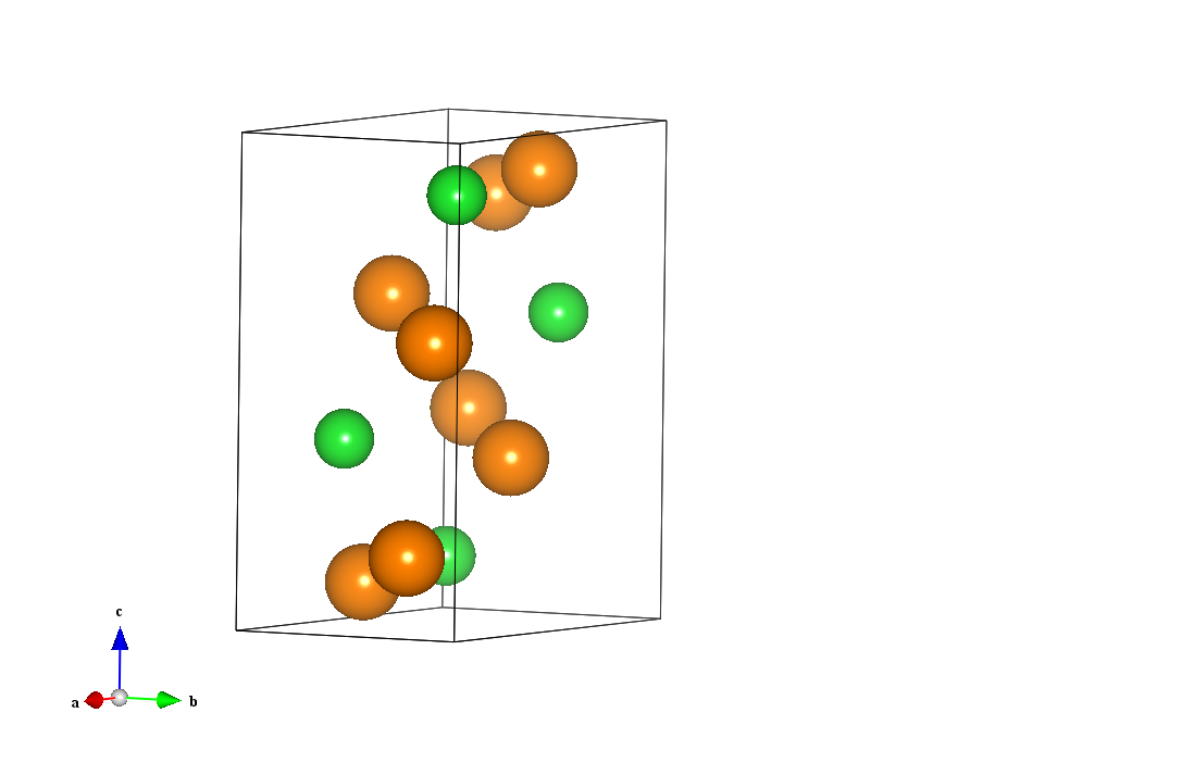 BaCl2 crystal structure drawn using VESTA K. Momma and F. Izumi, "VESTA: a three-dimensional visualization system for electronic and structural analysis." J. Appl. Crystallogr., 41:653-658, 2008.